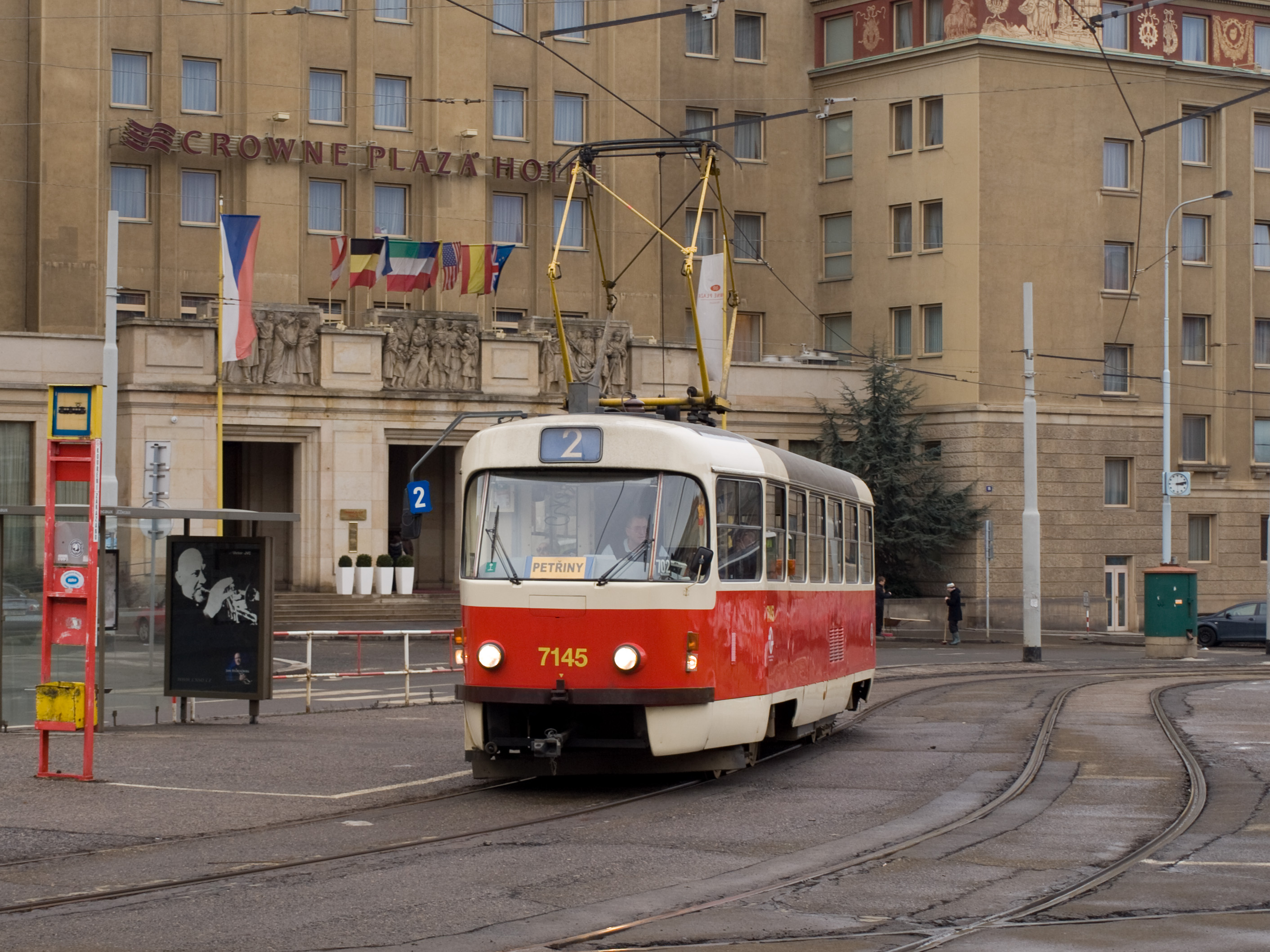 Tatra T3SUCS, tram loop Podbaba, Prague 6